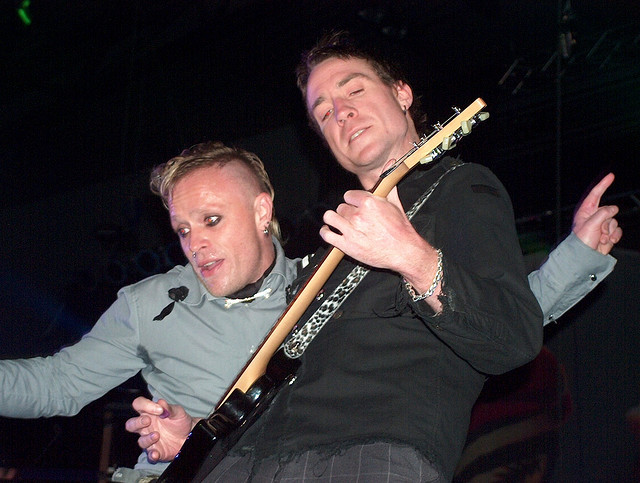 The Prodigy at Leipzig - Arena 2005: Keith Flint, Jim Davies